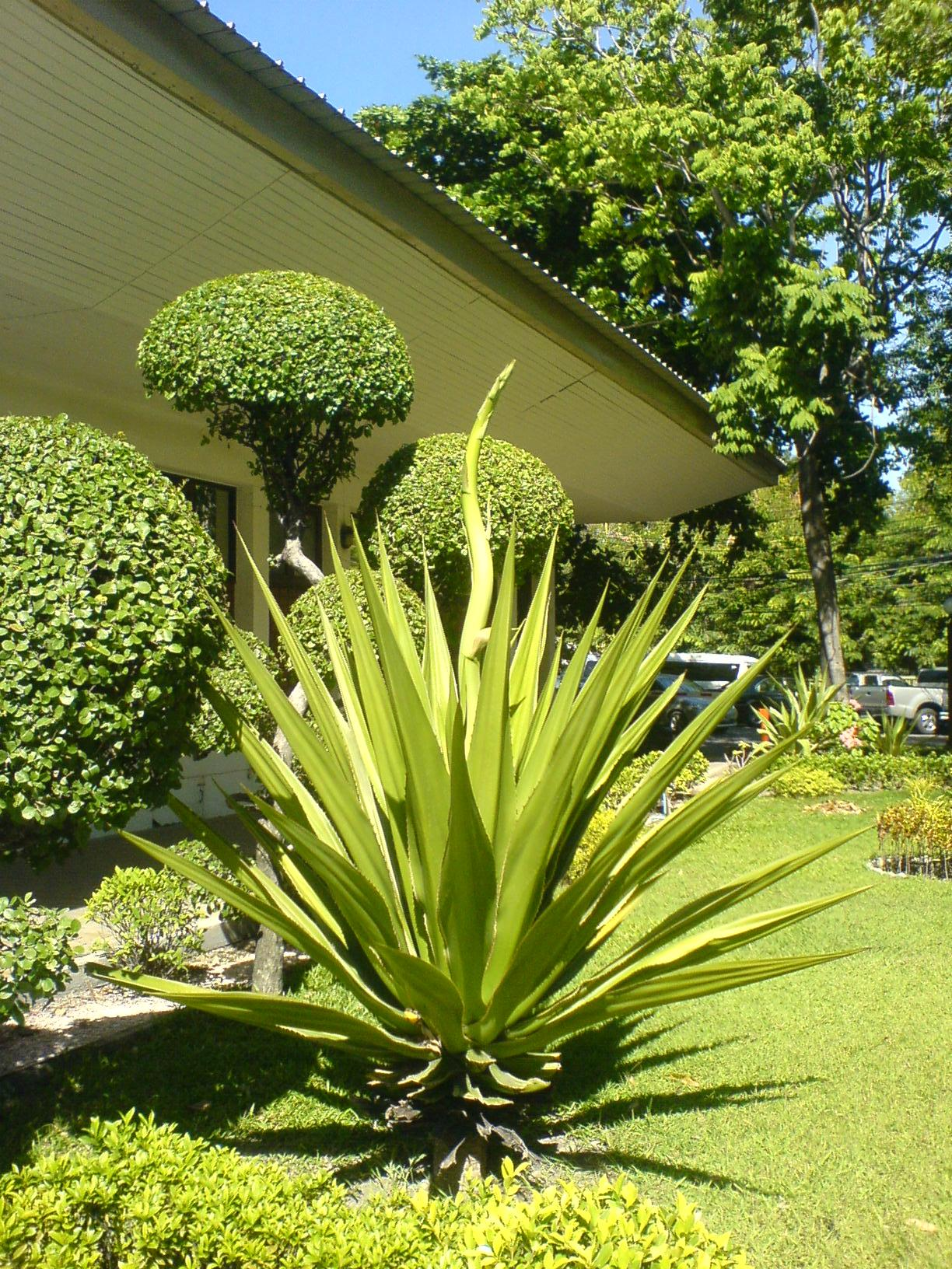 sisal blooming